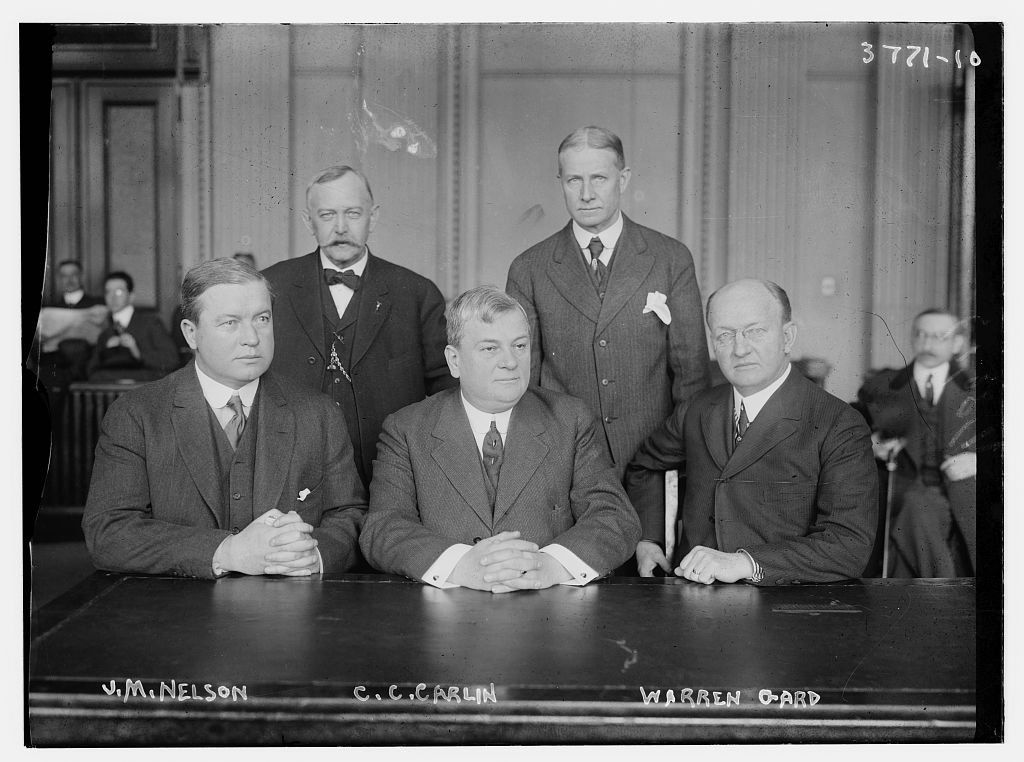 John Mandt Nelson and Charles Creighton Carlin and Warren Gard in 1916 on the House Committee on the Judiciary. Note that they are mislabeled and John Mandt Nelson in on the right in glasses. Warren Gard is on the left and Charles Creighton Carlin is properly identified.